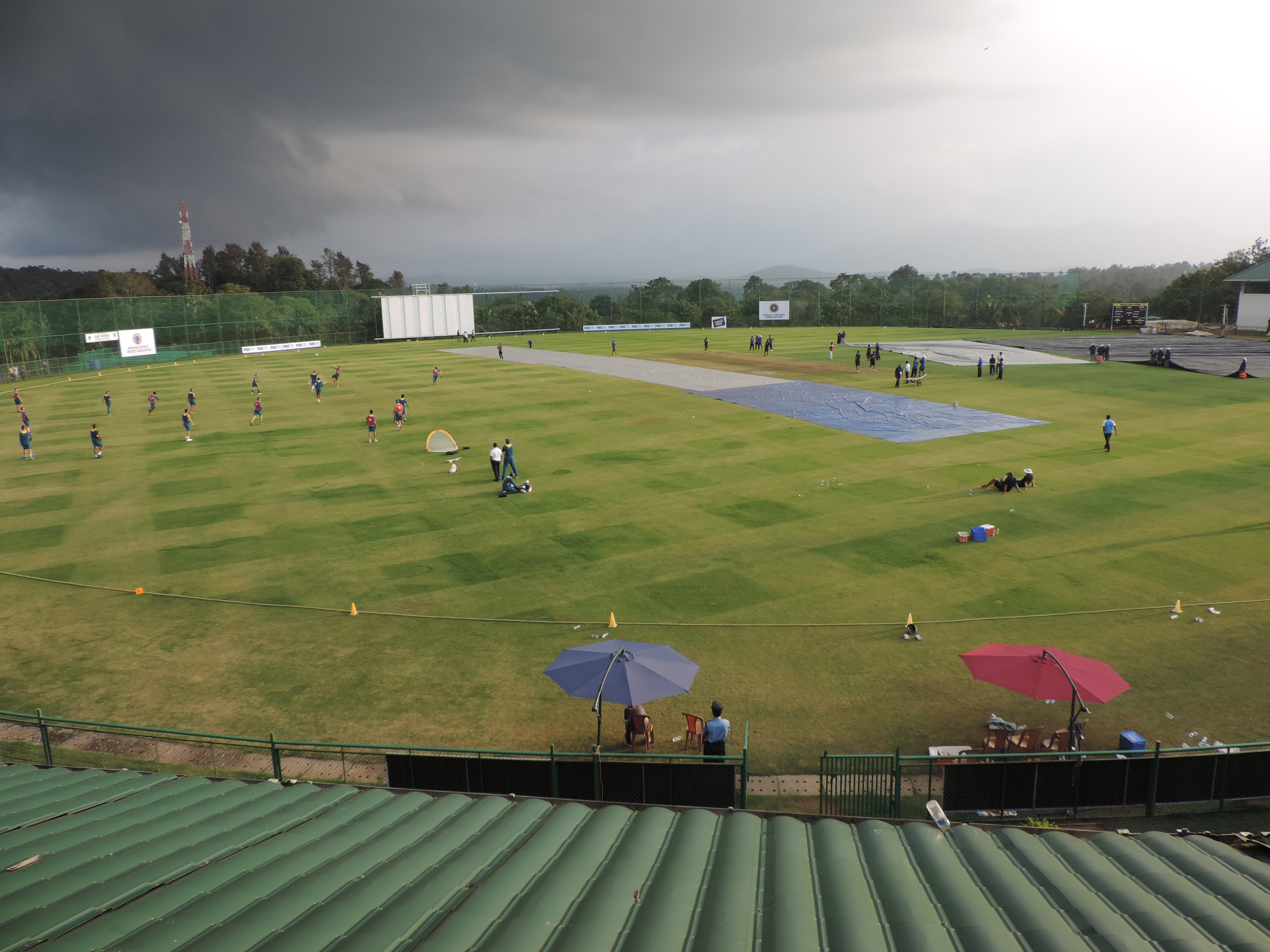 Krishnagiri Stadium during India A Vs. South Africa match